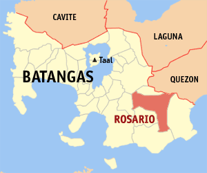 Map of Batangas showing the location of Rosario